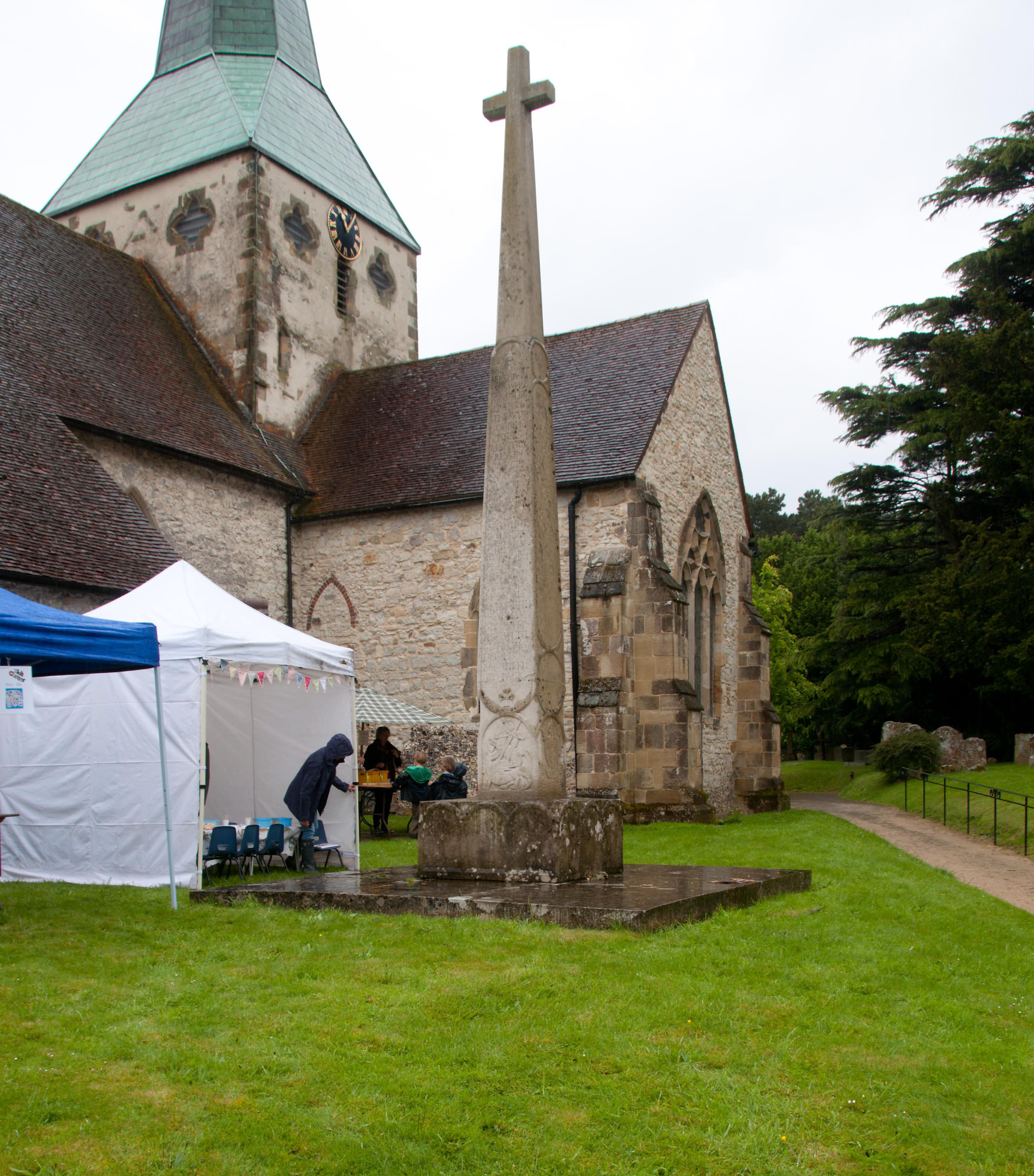 Seen on Festivities day 2014 from the East